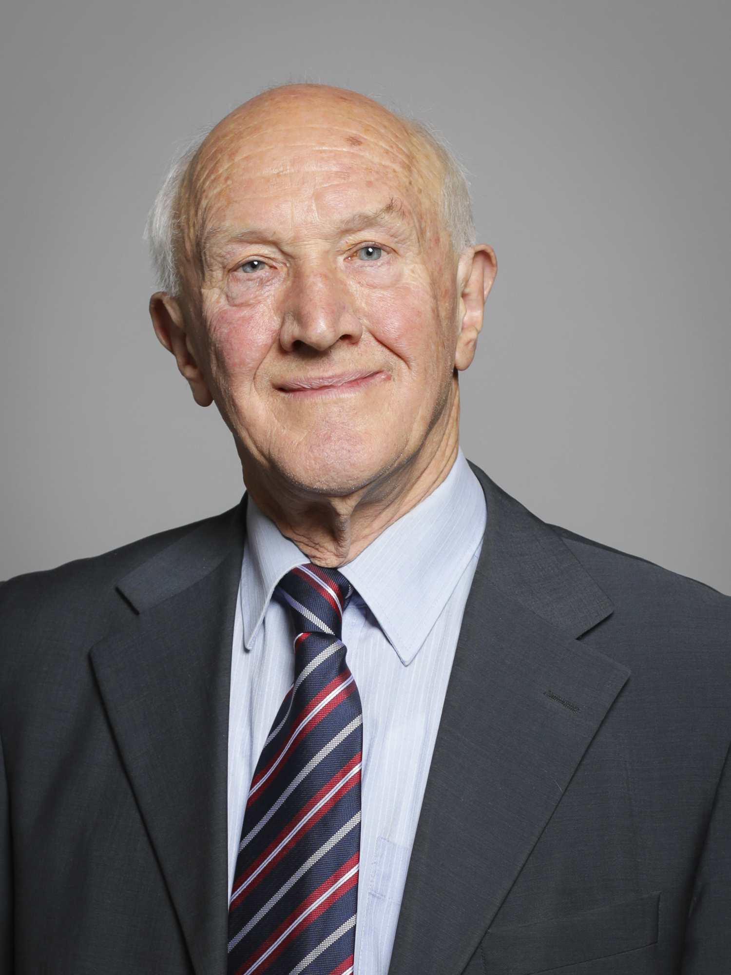 Official portrait of Lord Clark of Windermere 3×4 portrait of Lord Clark of Windermere